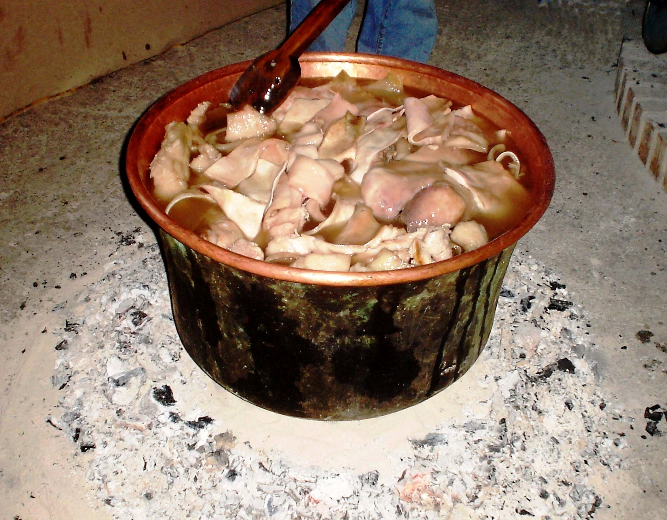 Frittole (commonly known as "Frittuli"), is a traditional dish of the city of Reggio Calabria and the entire province. It is made of pork parts and curcùci is also made from the preparation. It is prepared by cooking pork rind, pork meat and other less noble parts of the pig (part of the neck, cheek, tongue, nose, ears, kidneys, etc.) with pork fat (for taste).